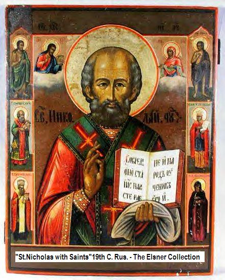 An example of Russian icons of St. Nicholas flanked by personal saints, custom-ordered by a member of the "Old Believers" in 19th century Russia (Russian art from the Elsner Collection). -:- Author: The InstaPLANET Cultural Universe -:- Photographer: User:CulturalUniverse (InstaPLANET), 2005; San Nicola di Mira con Santi.